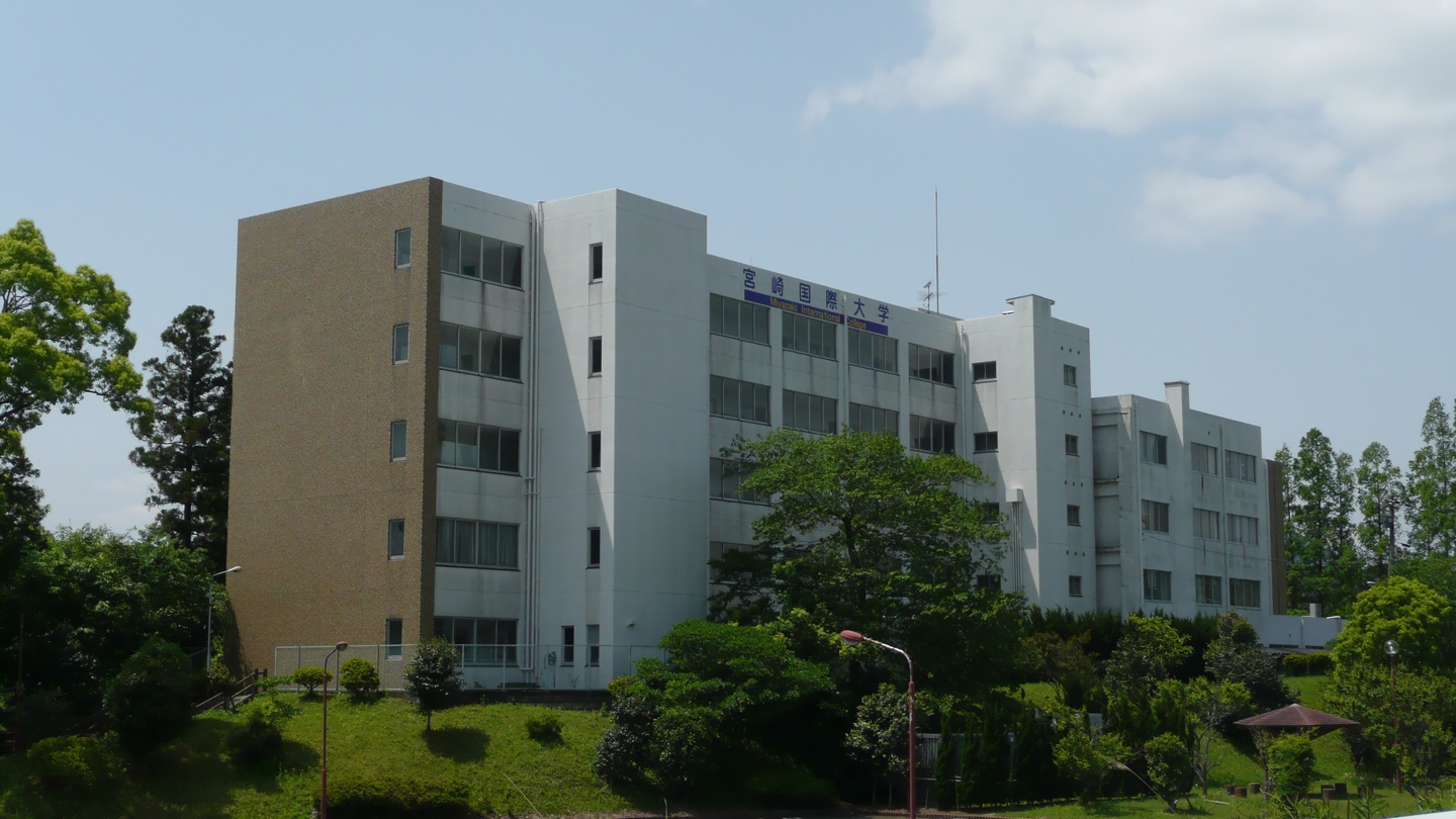 Miyazaki International College